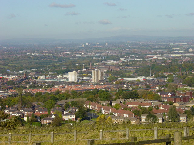 Hyde and Tameside from Werneth Low, in Greater Manchester, England. Hyde Town Hall is on the centre-left of this image. In the background is Dukinfield and Ashton-under-Lyne, both in Tameside. The Pennines are on the horizon.